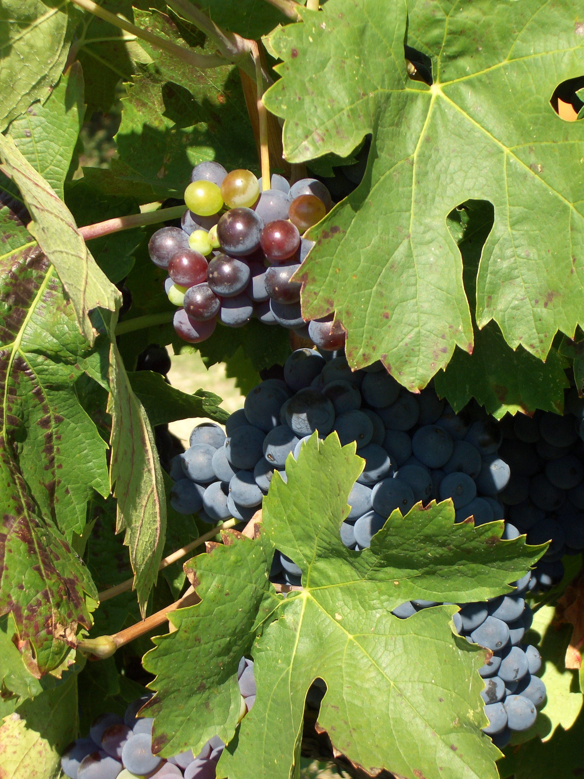 Cinsaut/Cinsault growing in the Southern Rhone Valley.